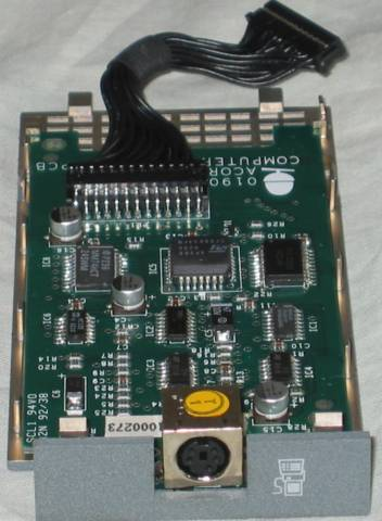 Acorn A4 Econet module (back).The Acorn ALA66 Econet module is specific to the A4. In the bottom photgraph, you can see the port with the Econet icon next to it. The module is upside down in the pictures, but replaces the panel on the back left of the A4 base.